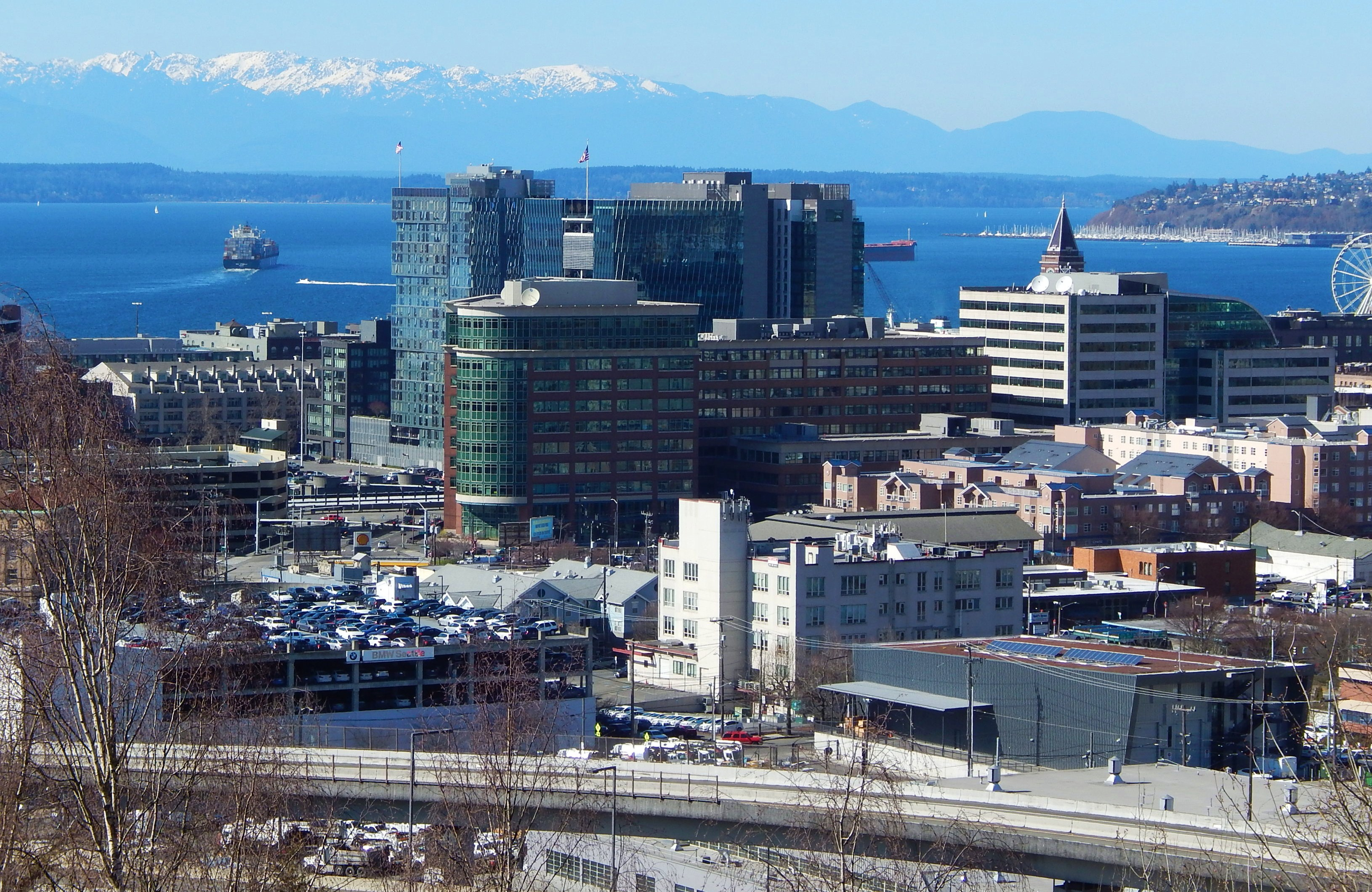 Seattle skyline from Rizal Park